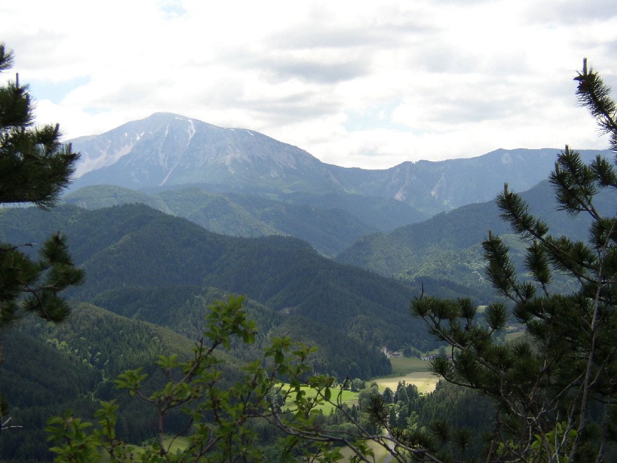 The Schneeberg as seen from the north (near Gutenstein)